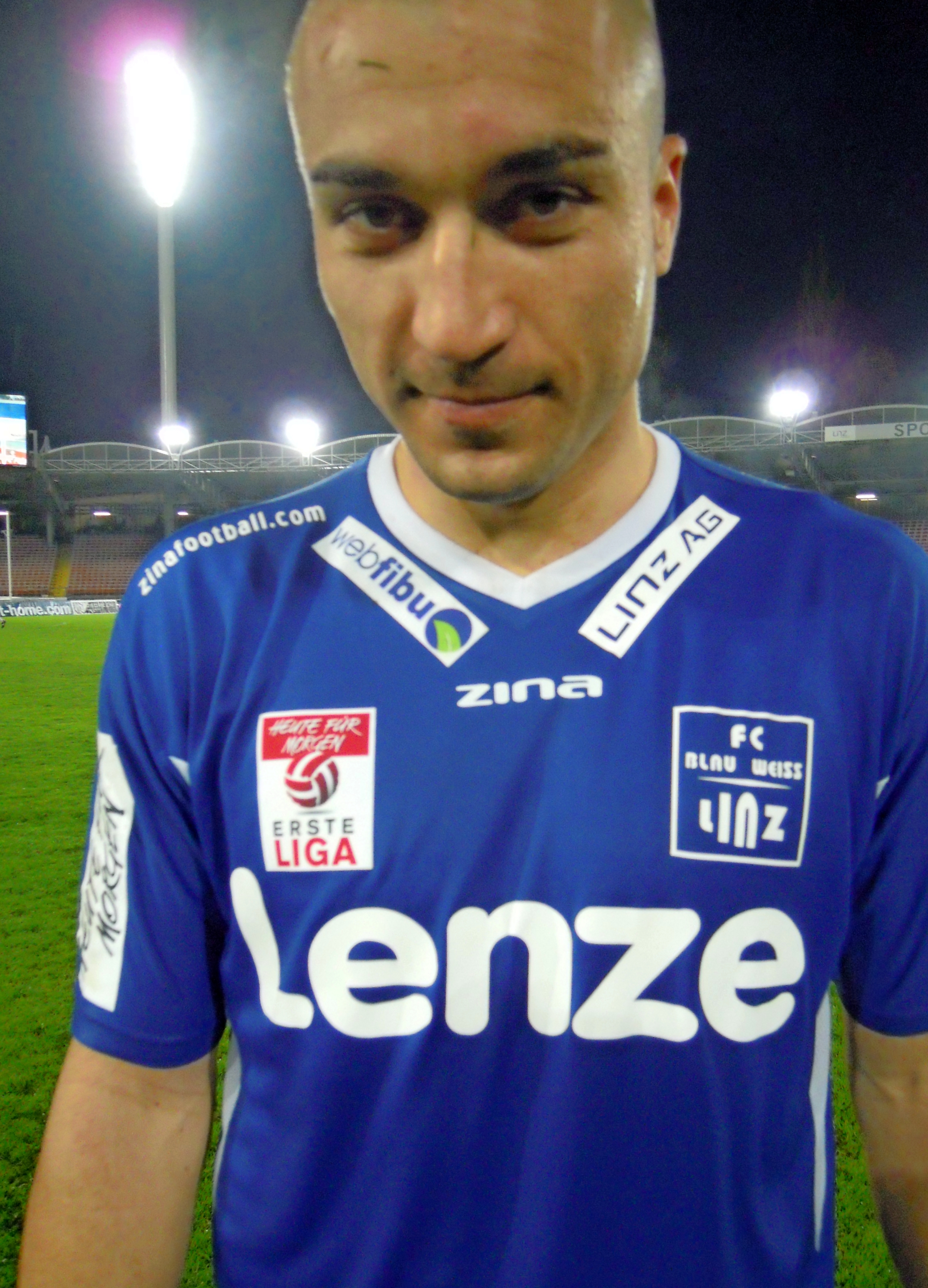 Aridany Tenesor as player of FC Blau-Weiss Linz shortly after the "Erste Liga"-match FC Blau-Weiss Linz versus Wolfsberger AC on 20 April 2012 at the stadium of Linz